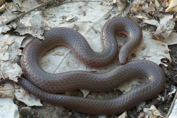 Carphophis amoenus helenae, the midwestern worm snake in Illinois' Shawnee National Forest.